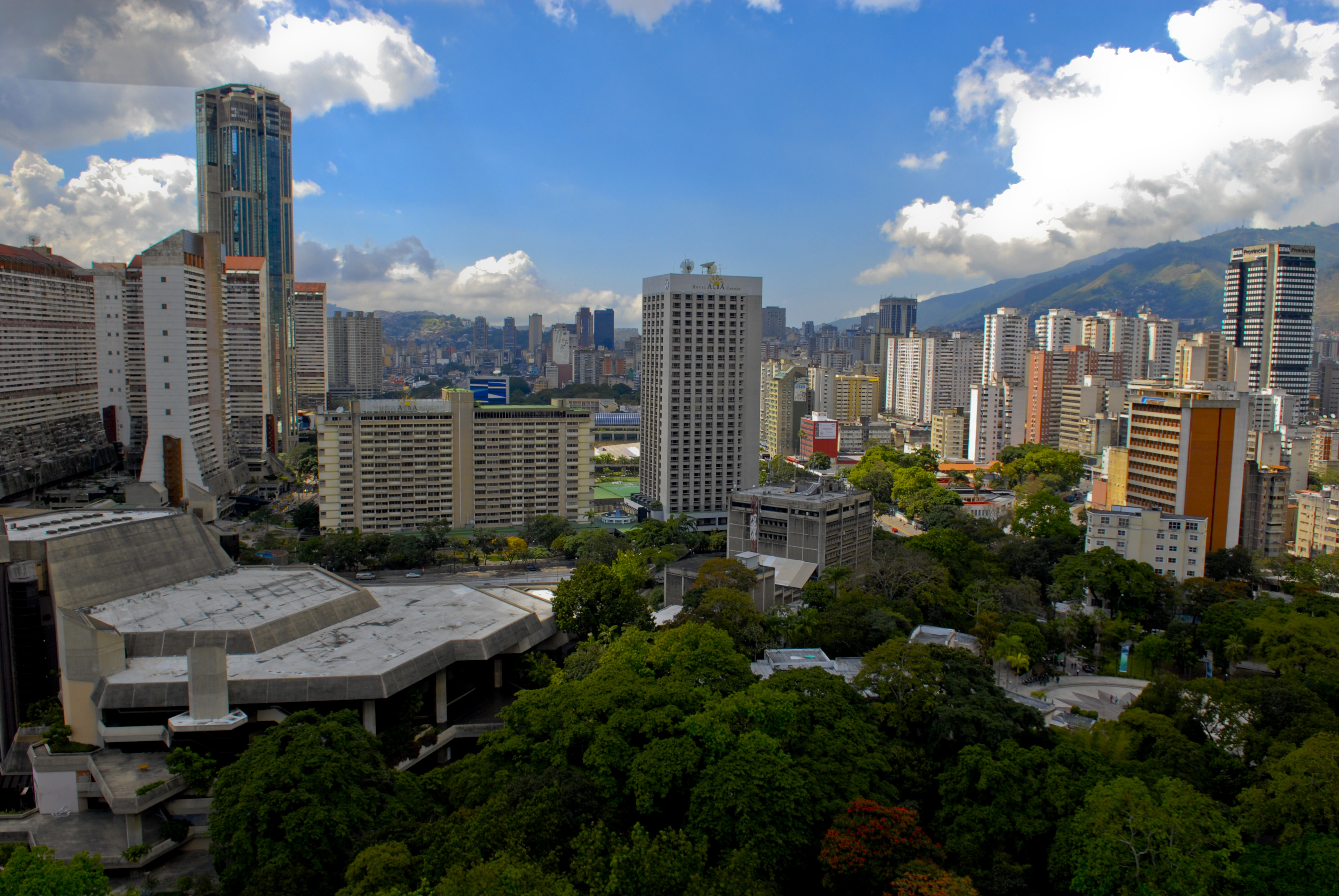 Aerial view toward Caracas downtown, Venezuela